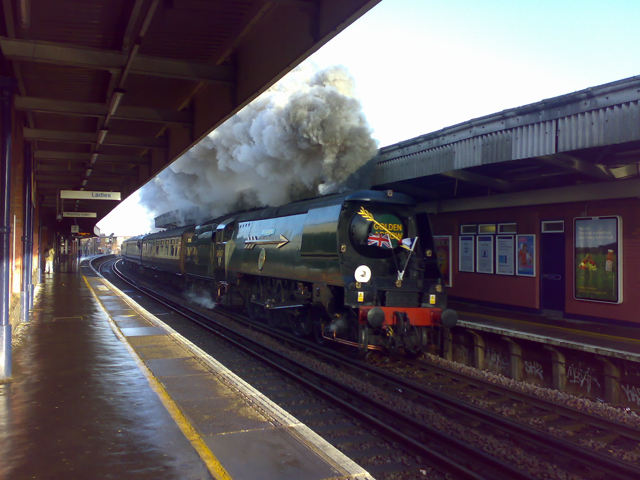 Spotted randomly at Herne Hill station. Quite impressive. .(uploaded from mobile)